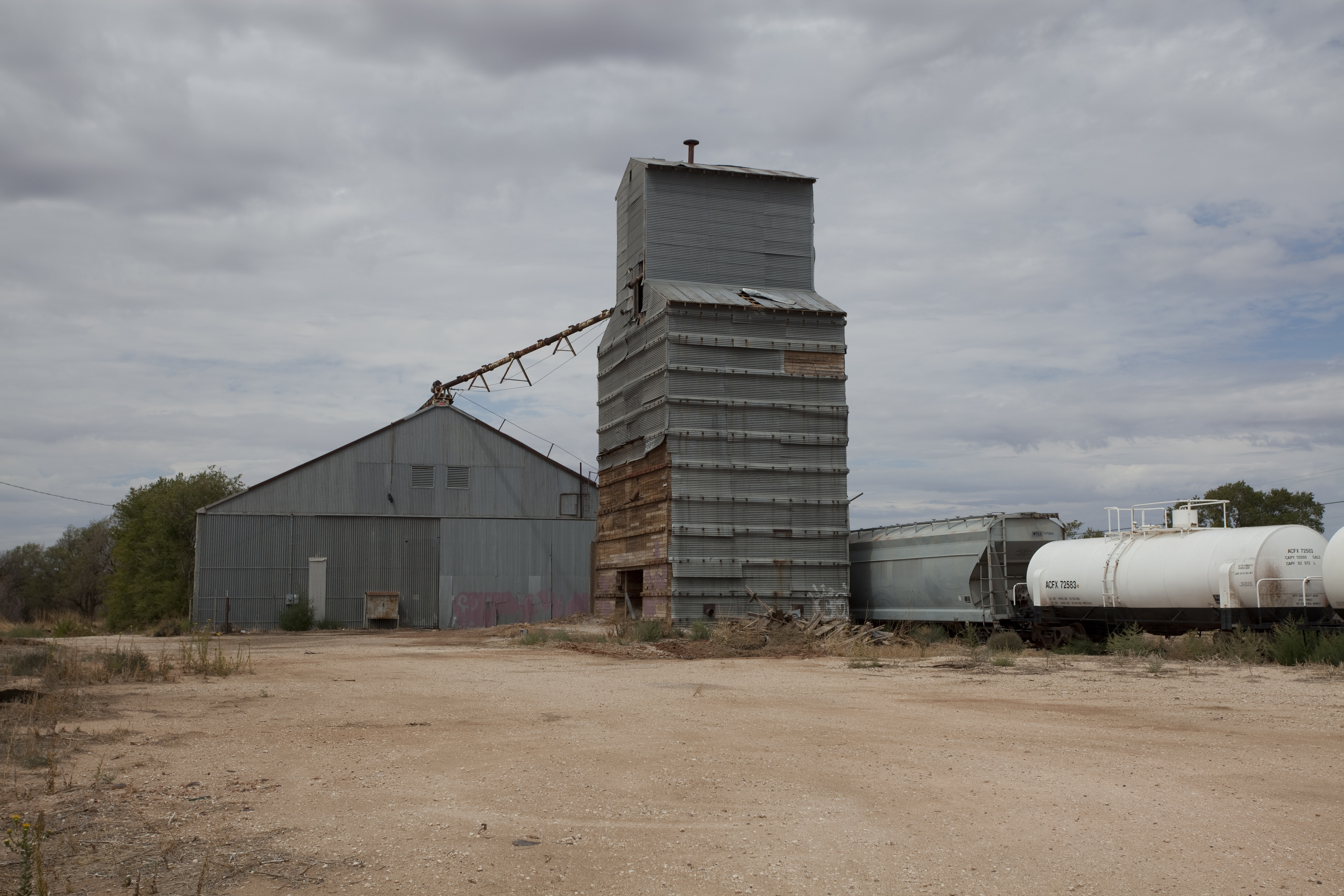 Abandoned and neglected grain elevator in Levelland, Texas.